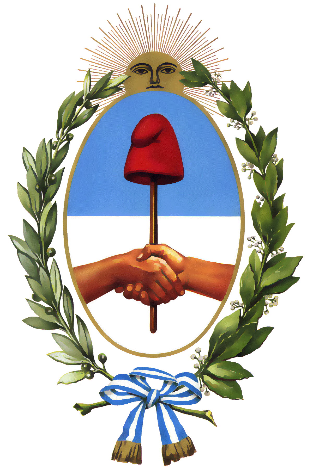 Coat of arms of the Buenos Aires Province, Argentina.